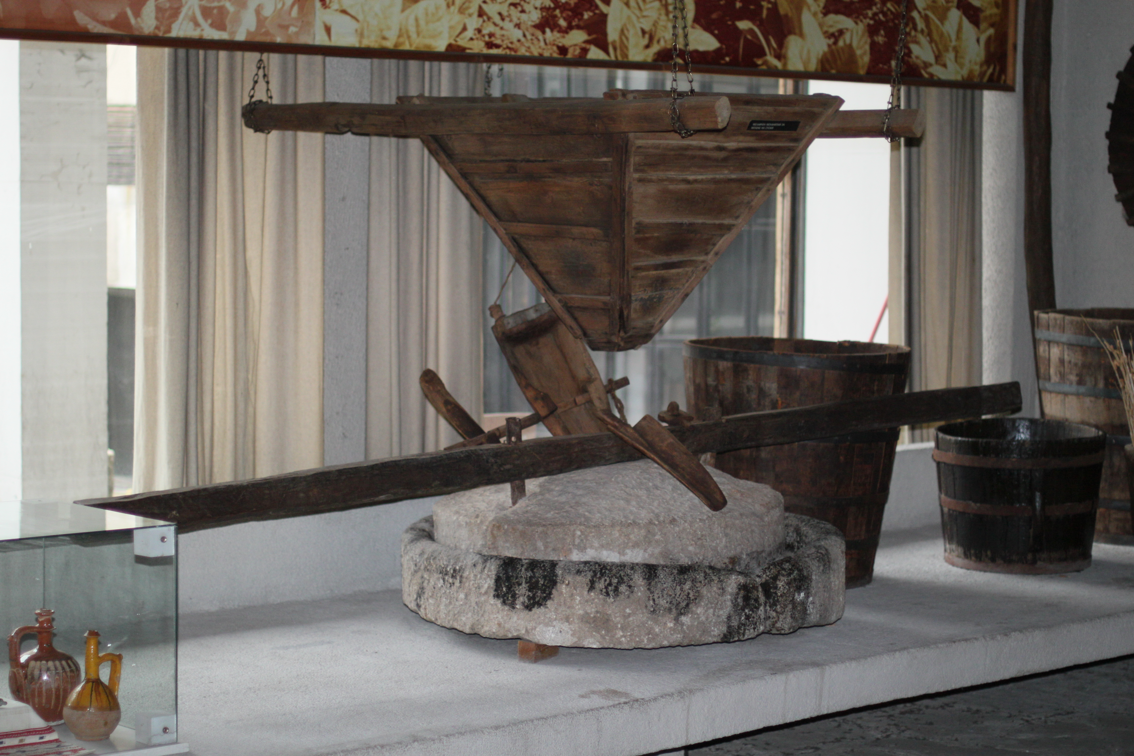 Haskovo Historic Museum, Haskovo, Bulgaria